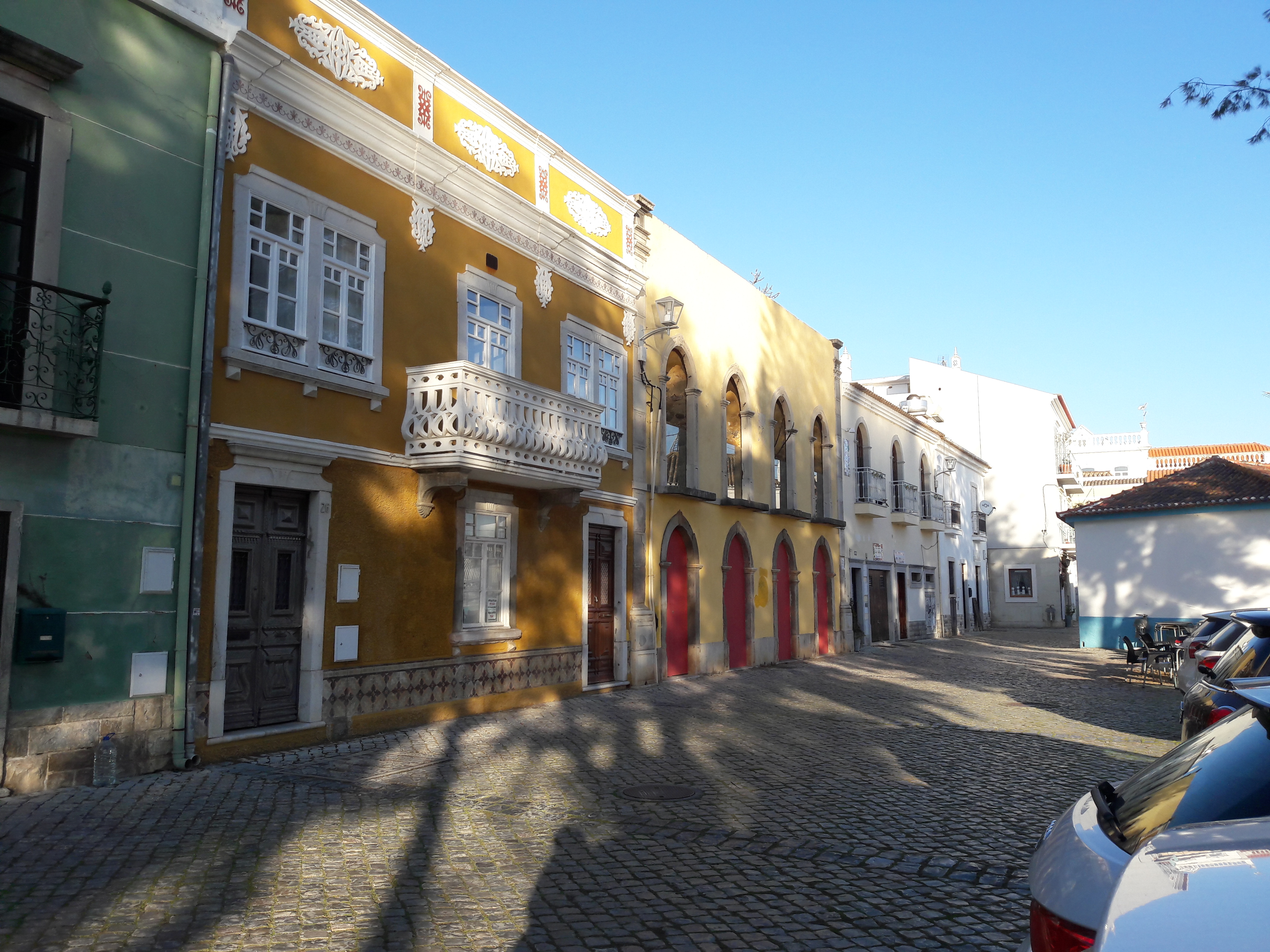 João Vaz Corte Real street in Tavira, Algarve.